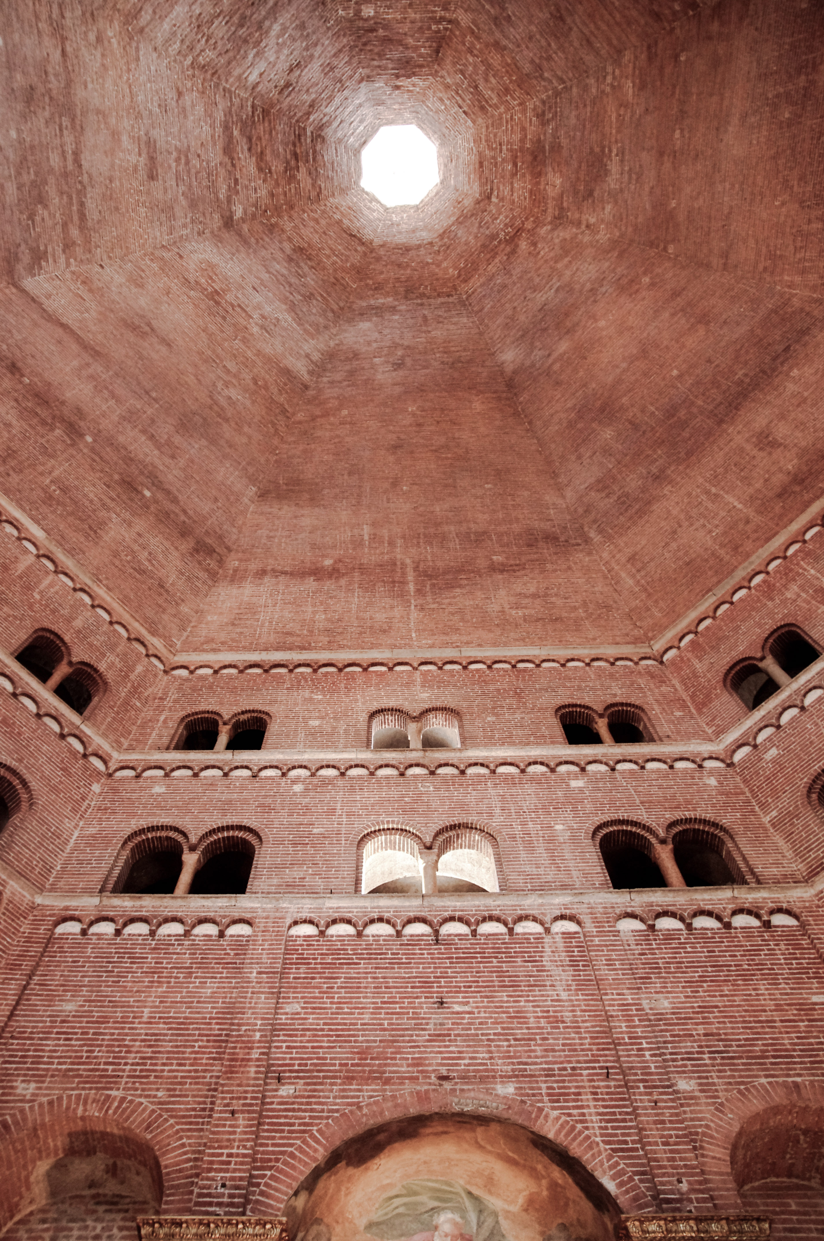 The Cremona Baptistery